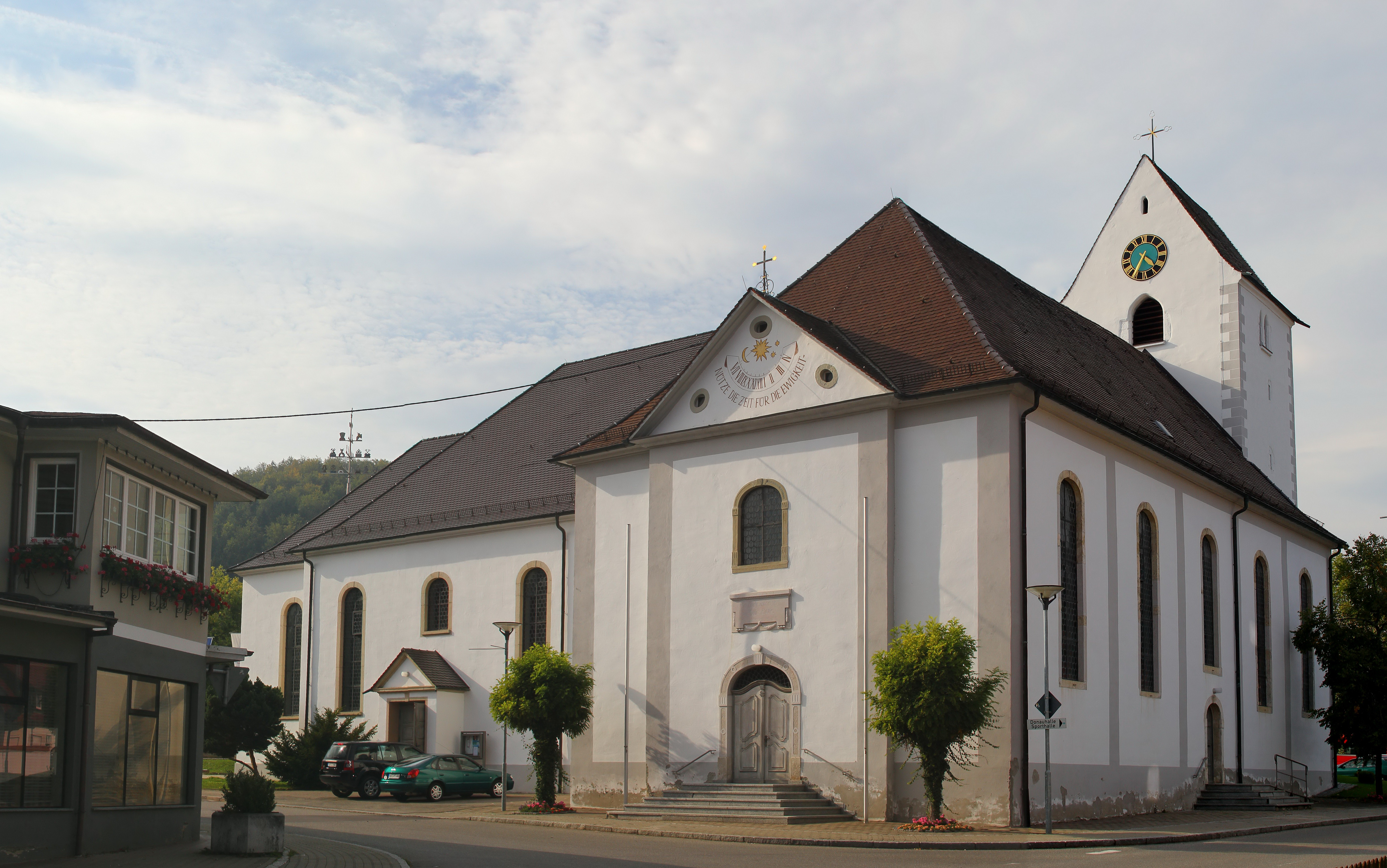 Church "St. Peter und Paul" of Immendingen